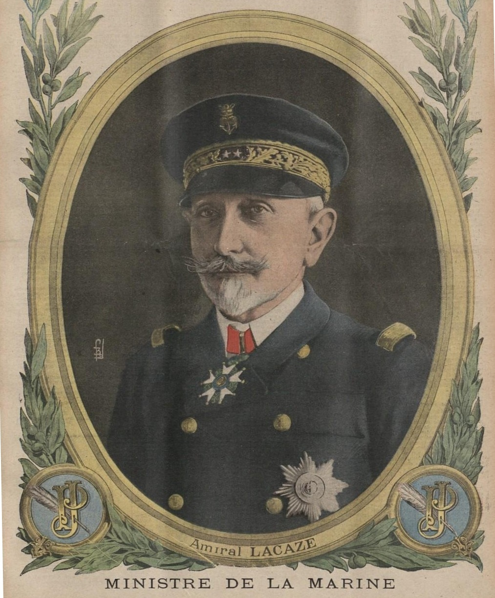 Admiral Lucien Lacaze, Minister of the French navy in 1916.